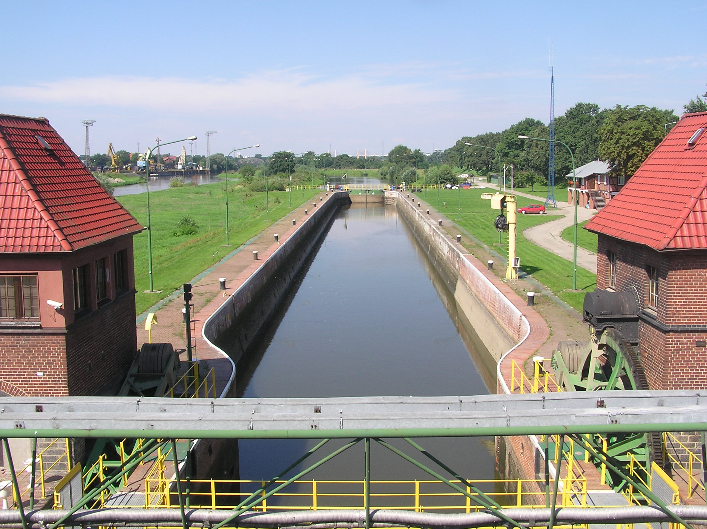 Wrocław, Oder River, Różanka Canal, Różanka Lock